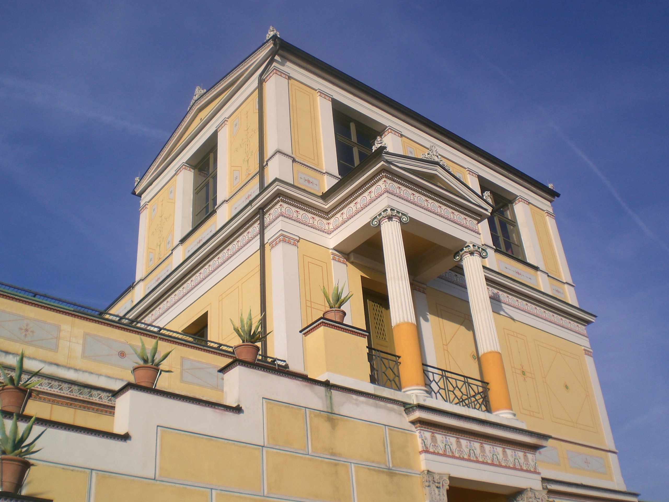 The castle Pompejanum is a historical building, designed in the style of a roman villa of Pompeii, at the river Main in Aschaffenburg (Germany).